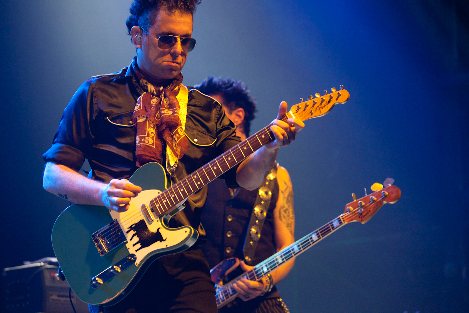 Andrés Calamaro live in the Razzmatazz, Barcelona, Spain.